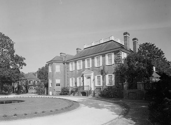 Fenwick Hall Plantation, Northeast intersection of River Road & Maybank Highway, Johns Island (Charleston County, South Carolina) (cropped)